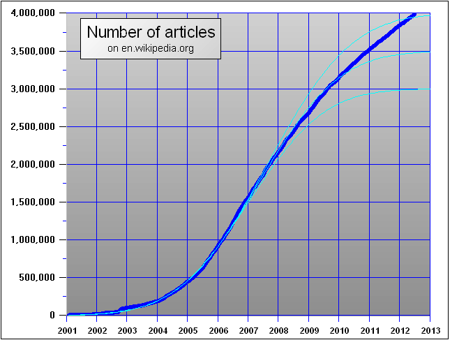 Number of articles on and my extrapolations (to 3, 3.5 and 4 million in the form of a cumulative gauss, up to dec 2008 to 3, 4 and 5M)